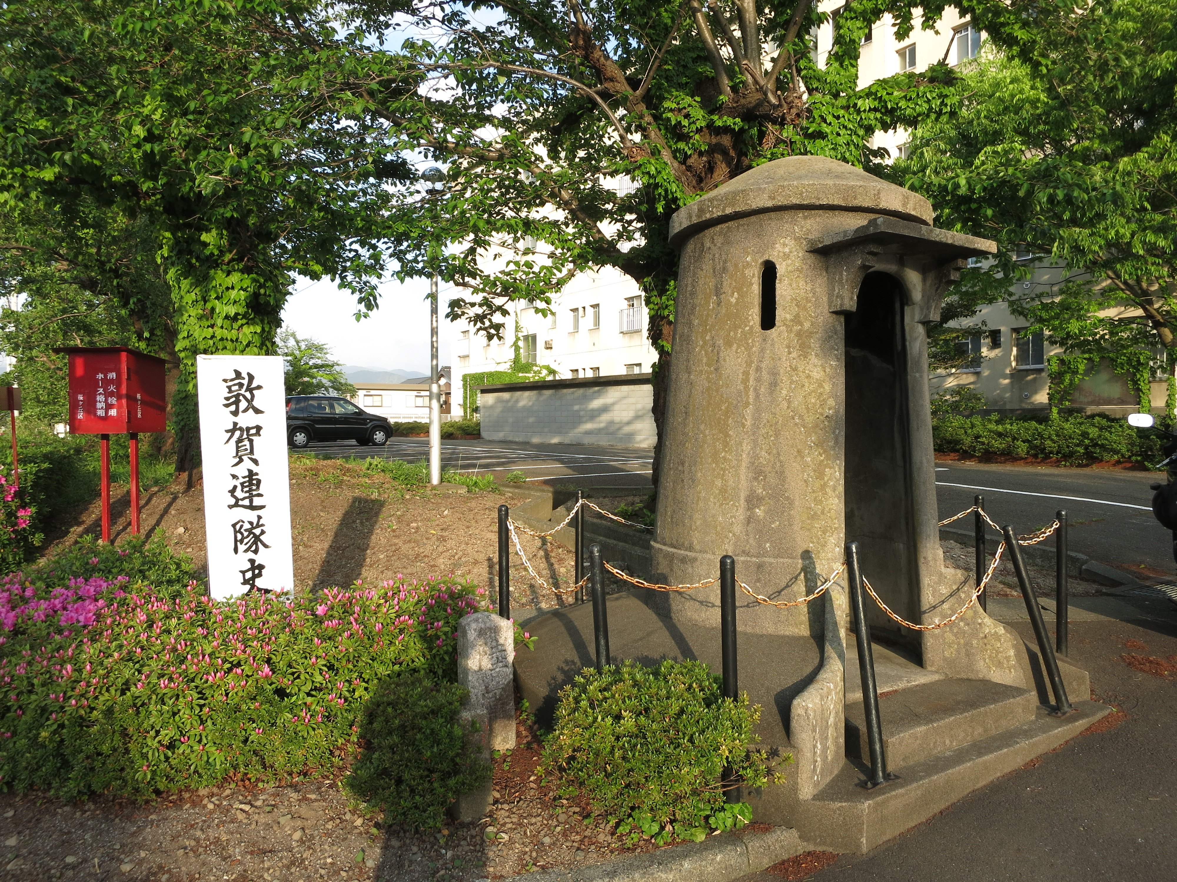 Tsuruga Regiment Sentry Post